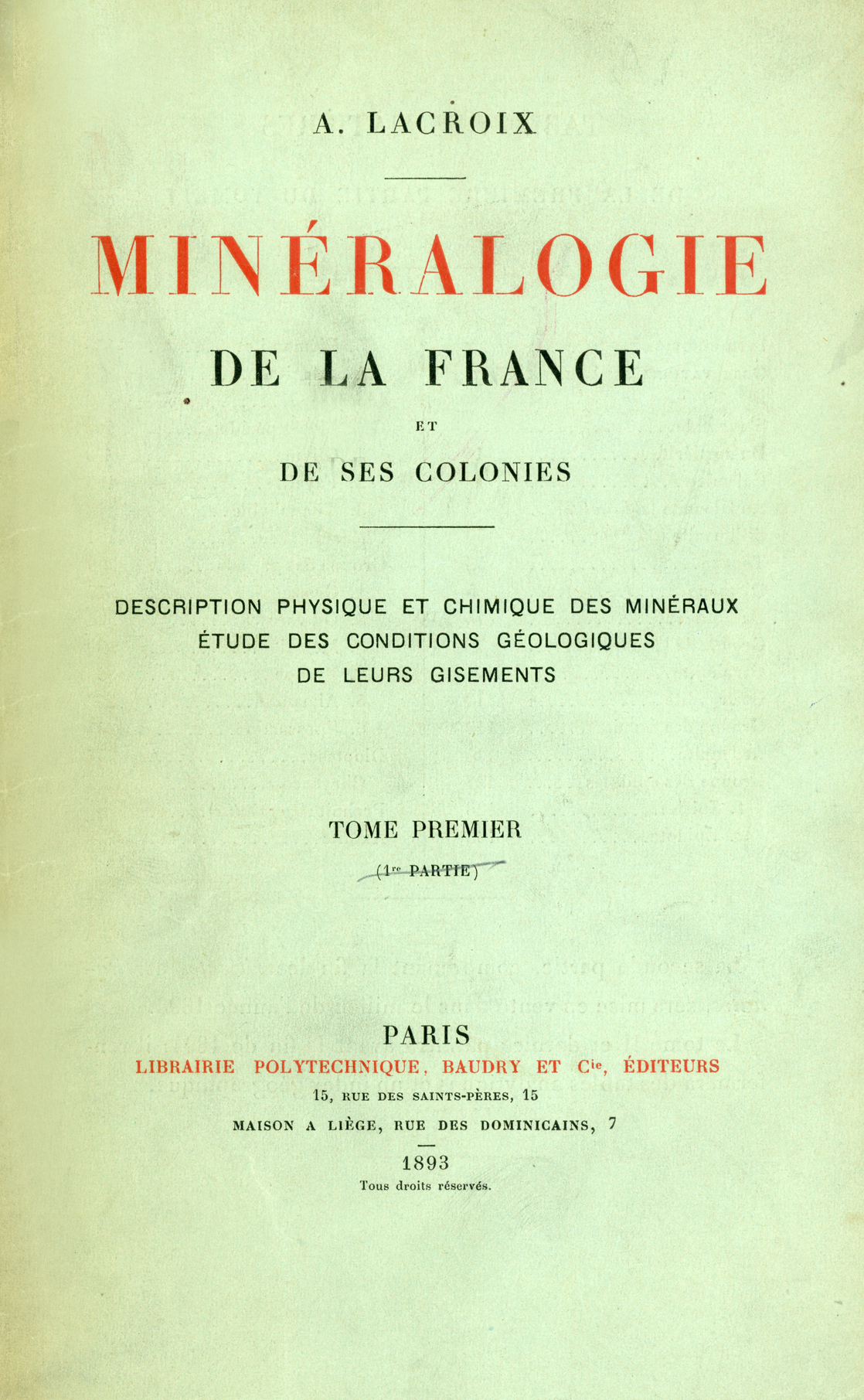 Cover of the first volumen of Alfred Lacroix book Mineralogie de la France